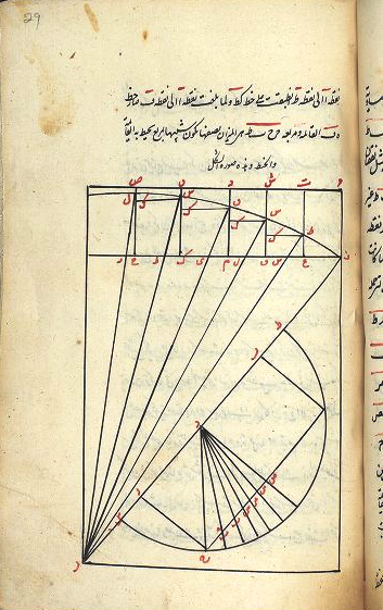 A 17th-century manuscript of Karaji's 11th-century book, Inbāṭ al-miyāh al-khafīyah